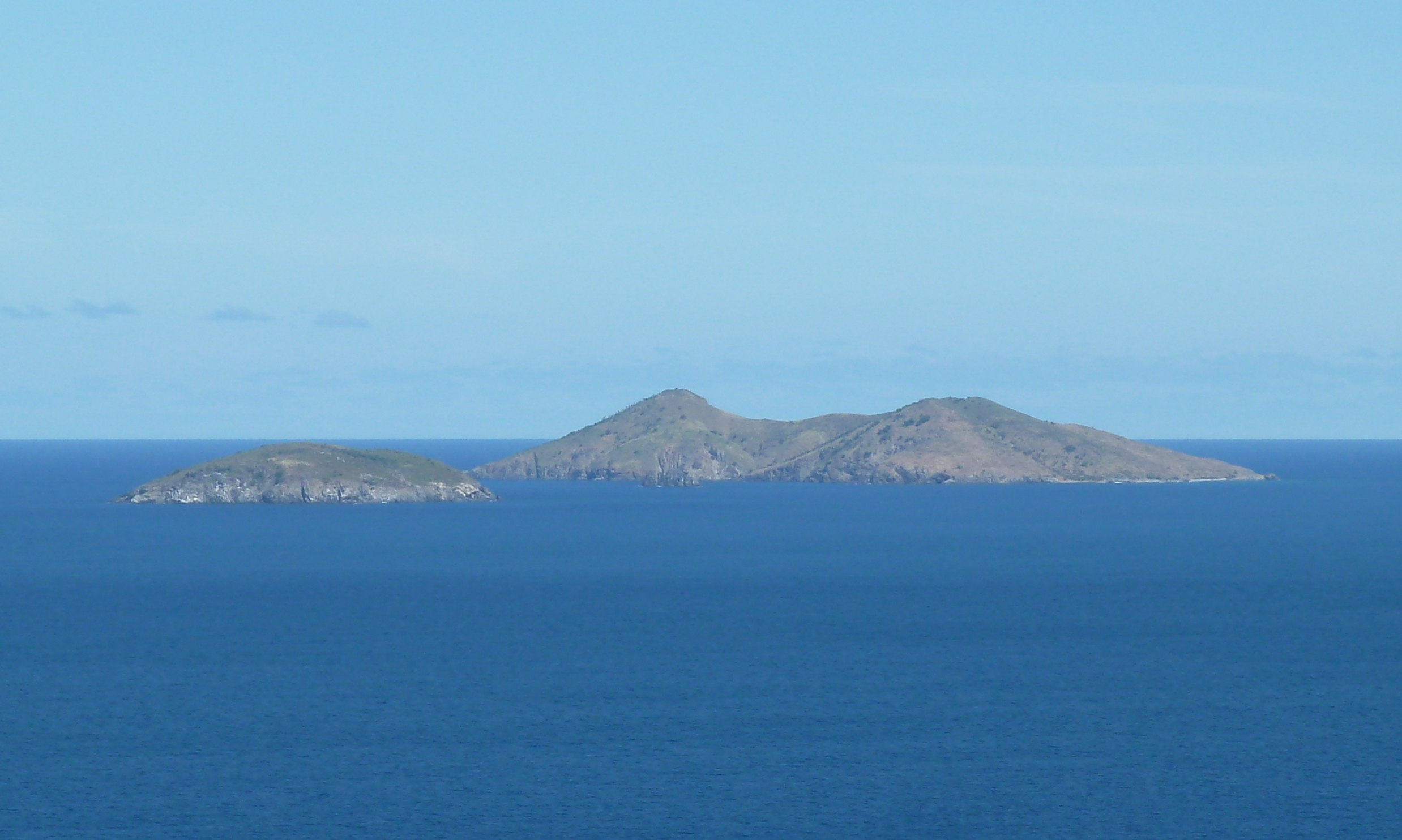 Little Tobago and Great Tobago, BVI, seen from St. Thomas, Jan 2018.